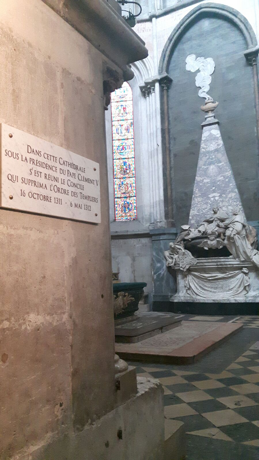 Plaque in memory of the suppression of the Templars in the Cathedral of San Maurizio in Vienne in 2016